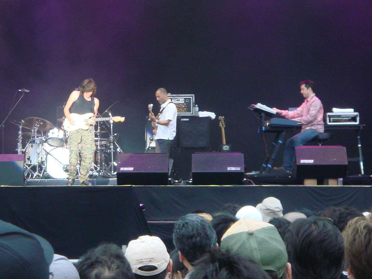 Jeff Beck